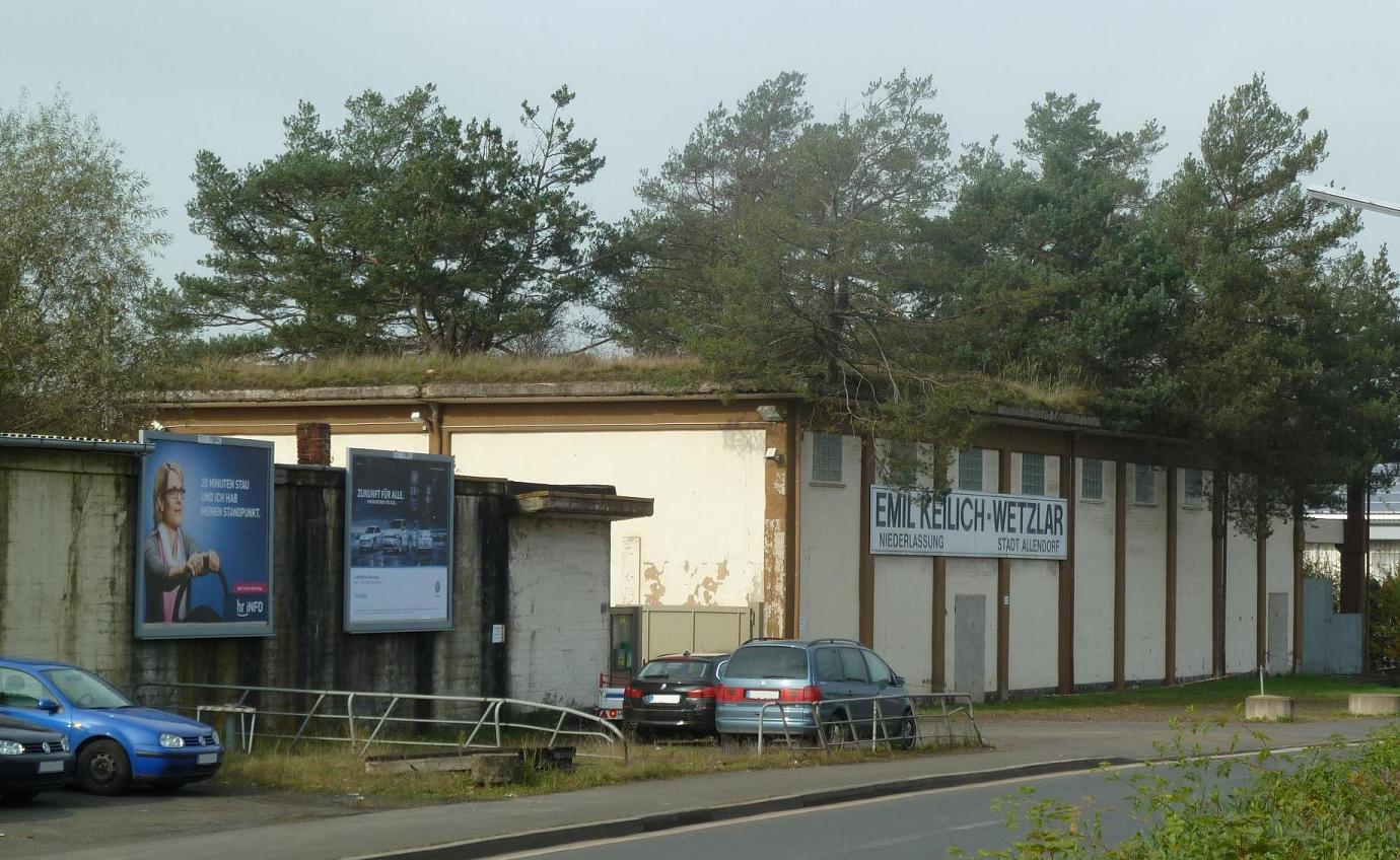 Former bomb plant in the Allendorf explosives factory.